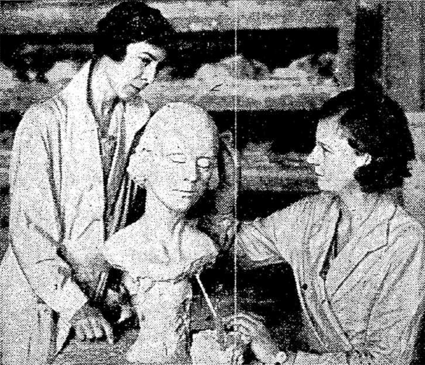 Jessamine Buxton (1895-1966) South Australian painter, sculptor and art instructor